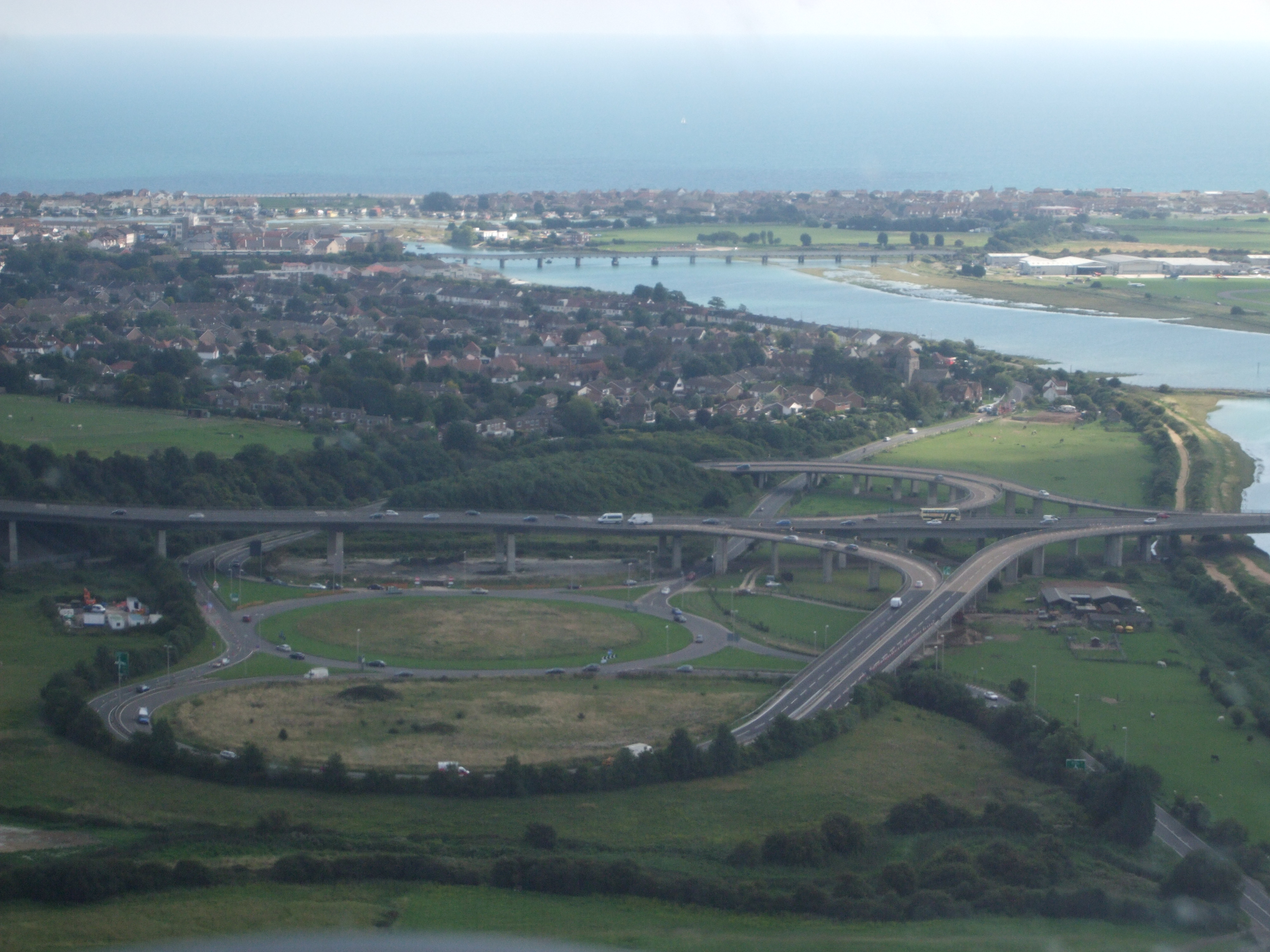 Aerial photo of the Adur flyover, Sussex, UK, taken on the approach to Shoreham Airport 11 Aug 2009.